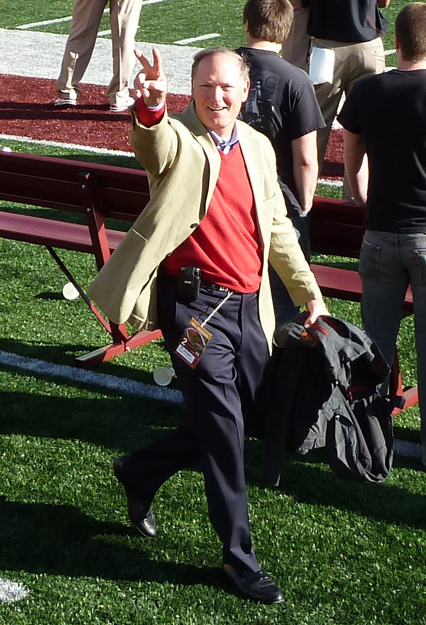 USC Trojans football Athletic Director Pat Haden walks the sideline during a game in the 2010 USC Trojans football season; he is making the customary USC "V-for-victory" sign.